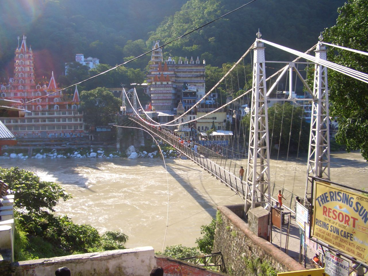 rishikesh. foot traffic only. oh and beeping motorcycles. and cows